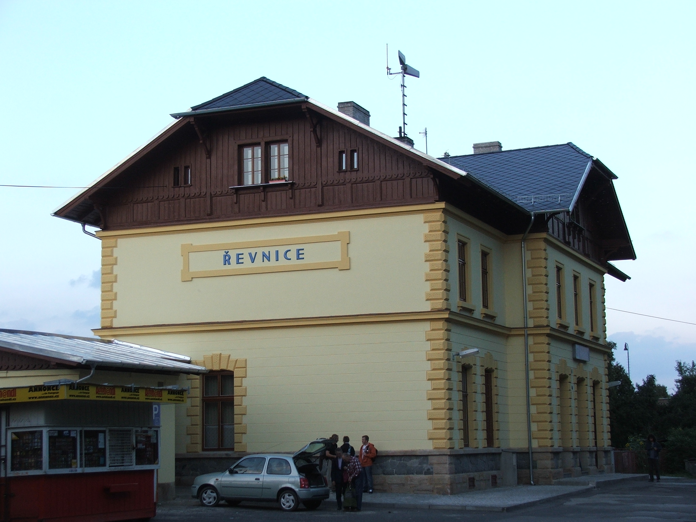 Train station in Řevnice, Czechia